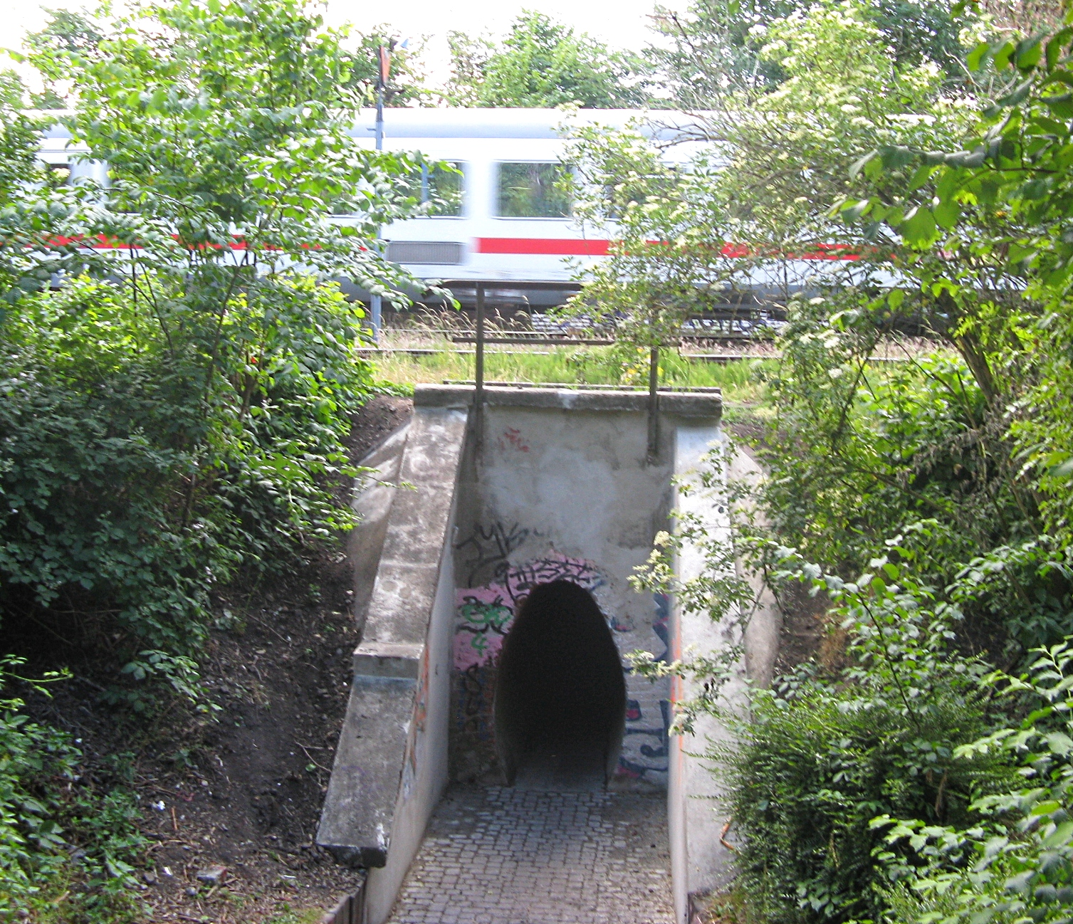 Pedestrian tunnel (so called Eiertunnel, engl. egg tunnel) in Bad Kleinen, Mecklenburg-Vorpommern, Germany. The Tunnel underpasses the railway lines Schwerin-Bad Kleinen and Lübeck-Bad Kleinen. - view from village side, an InterCity-train passes the tunnel